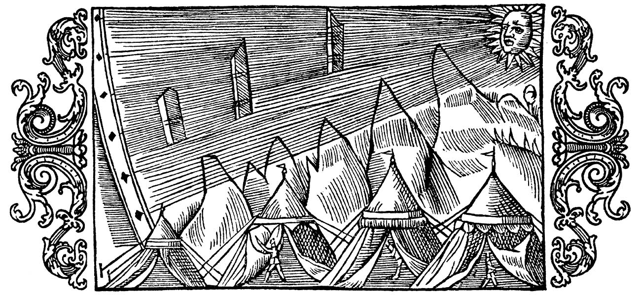 In the north the sun never rise high above the horizon. In many places you can see the sun just over mountain tops at fixed times every day. The woodcut illustrates this simple way to measure the time.